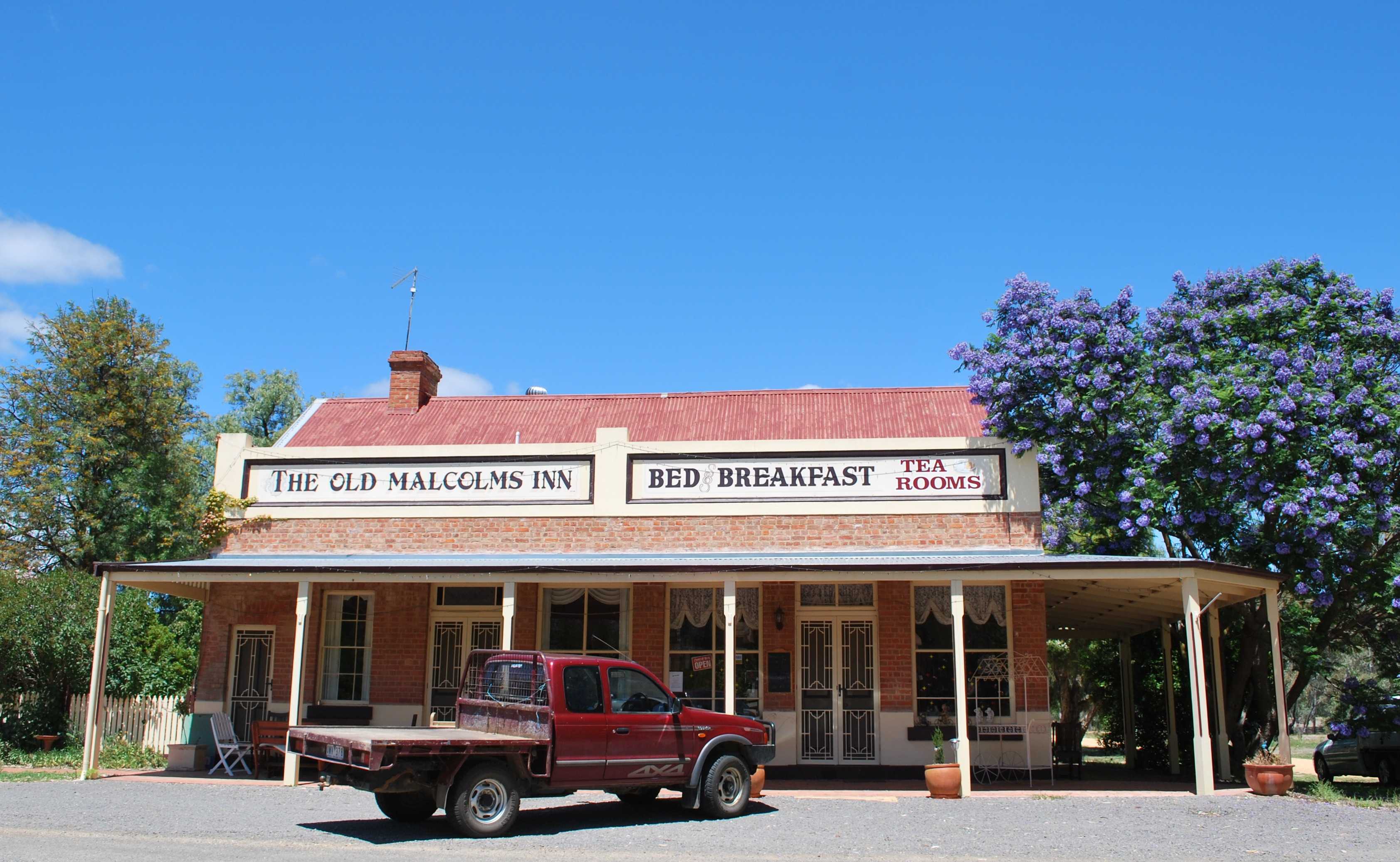 Old Malcolms Inn, a former hotel and general store, now a B&B at Stuart Mill, Victoria